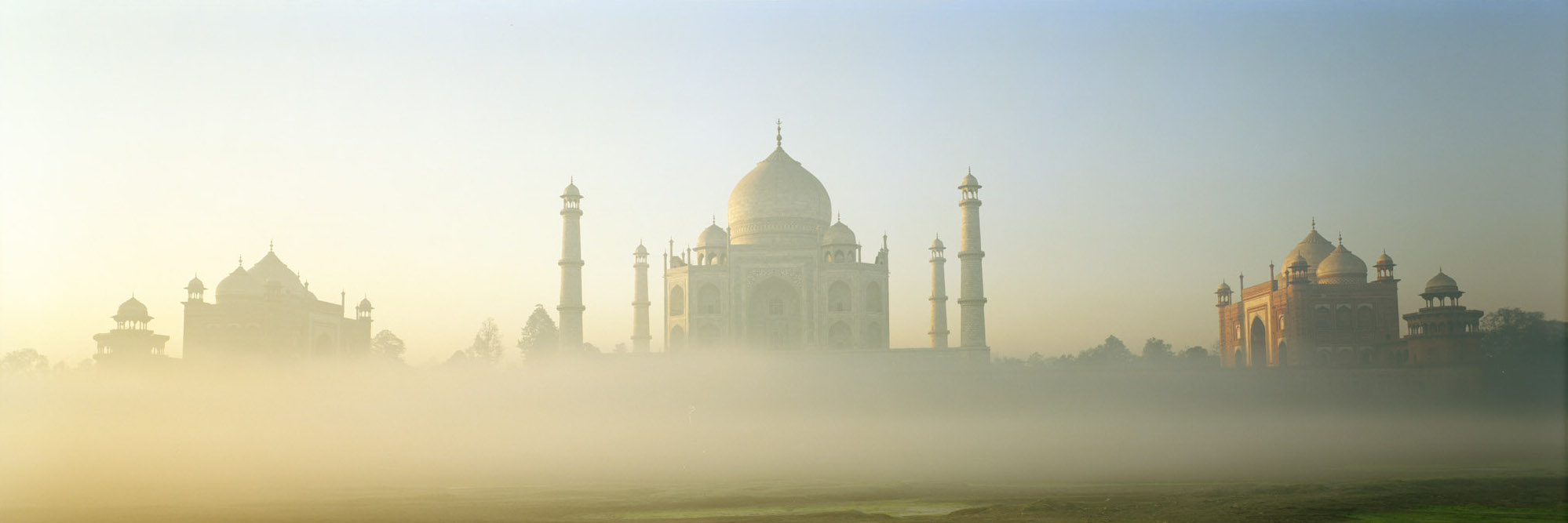 Taj Mahal at dawn